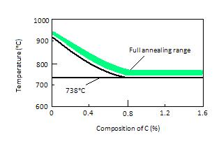 the graph of heat-treating temperature ranges for full annealing